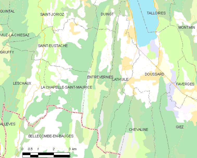 Map of French municipality Entrevernes